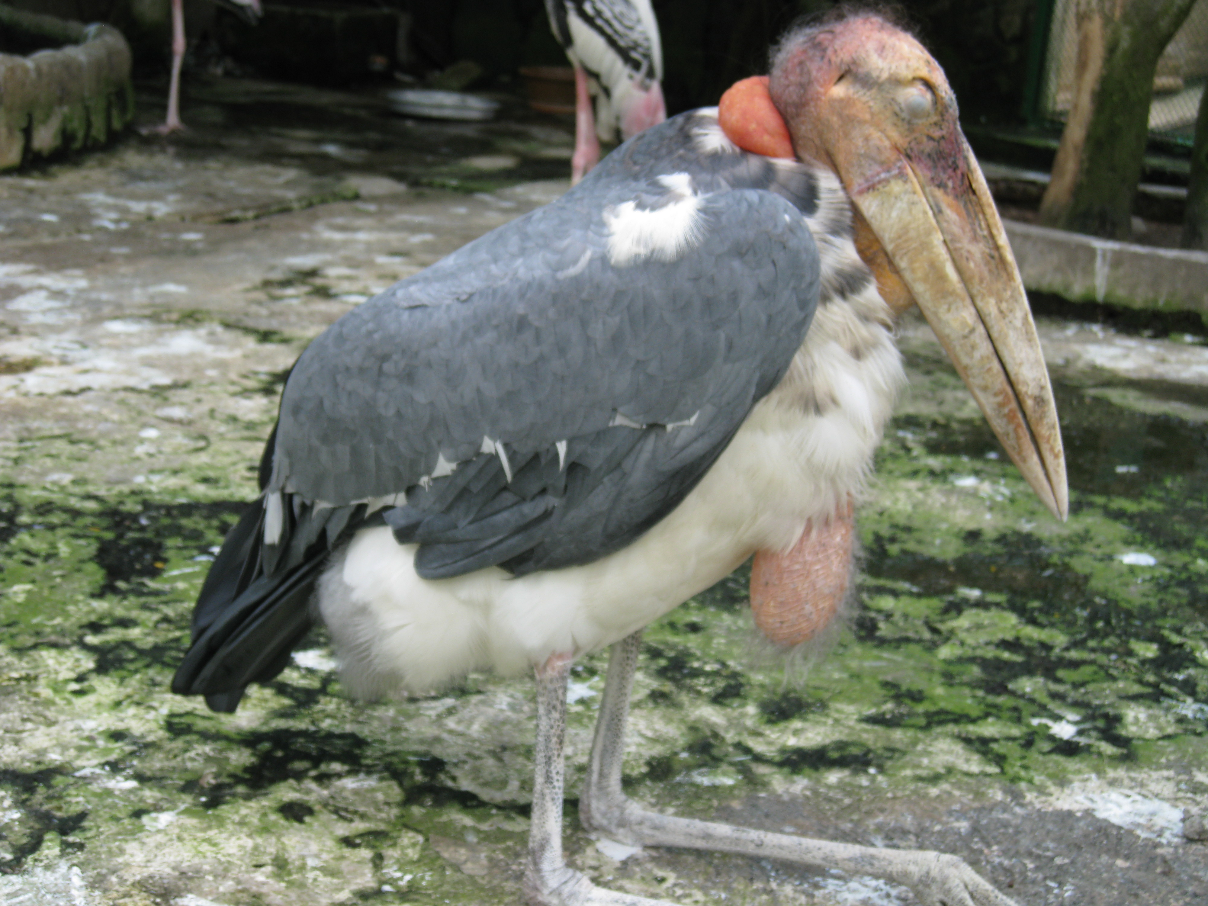 Leptoptilos dubius, Saigon Zoo and Botanical Gardens.